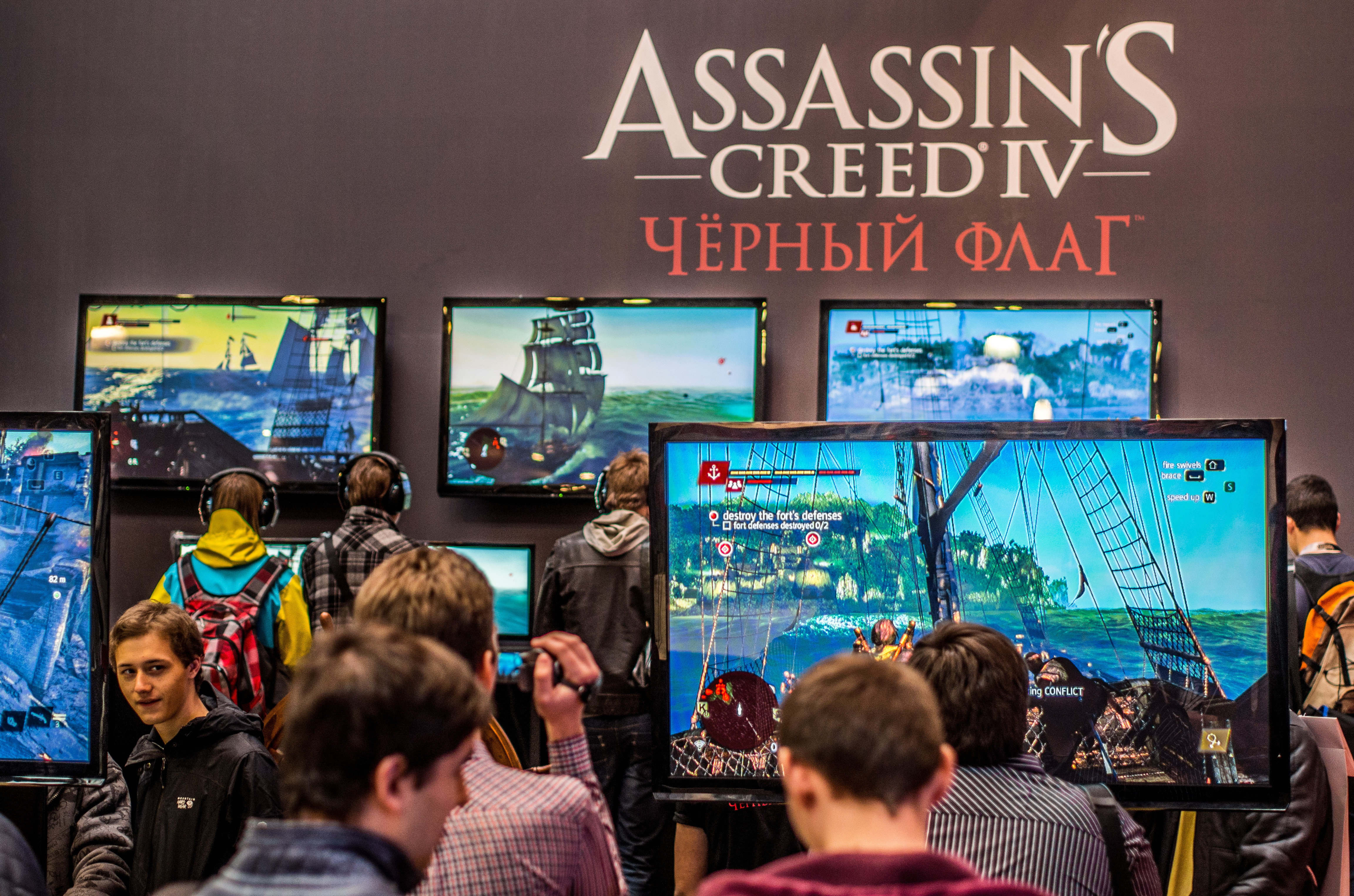 Russian gaming expo